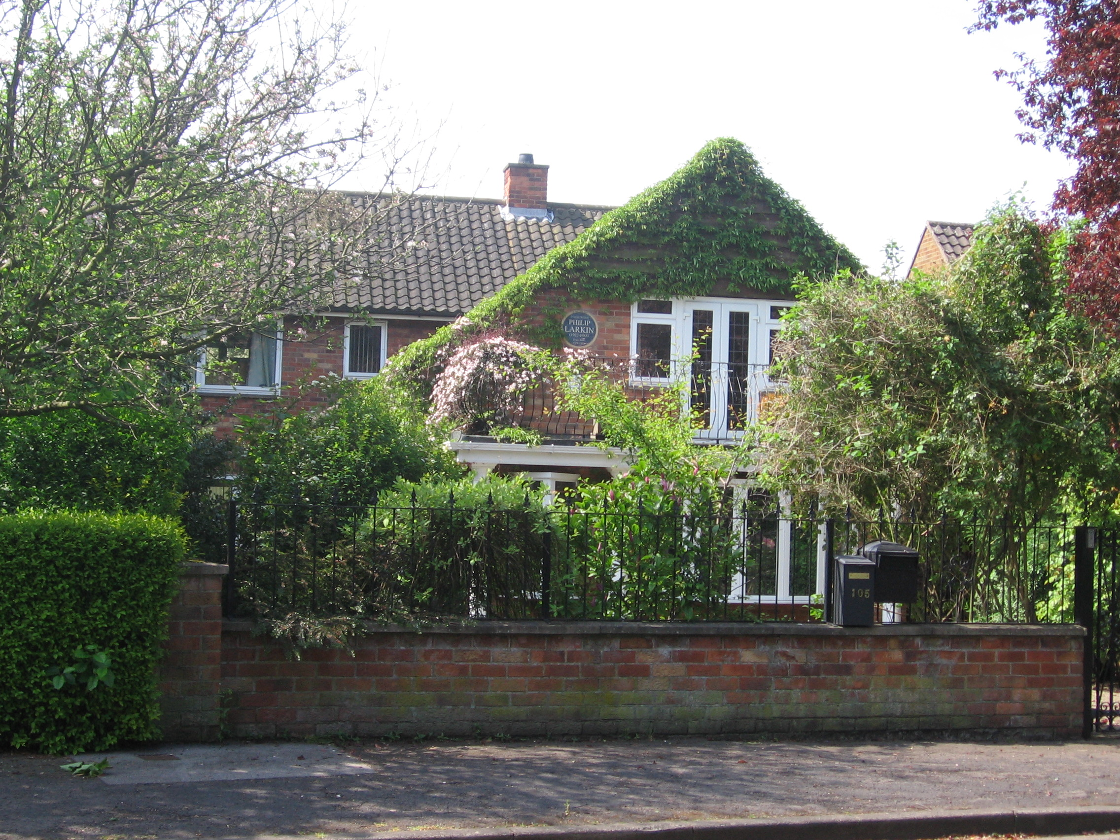 Home of the English poet Philip Larkin (1922-1985) at 105 Newland Park, Hull, East Riding of Yorkshire, England.